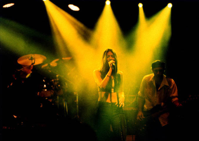 Velvet Chain performing at the Key Club in Los Angeles, California in September 2001.